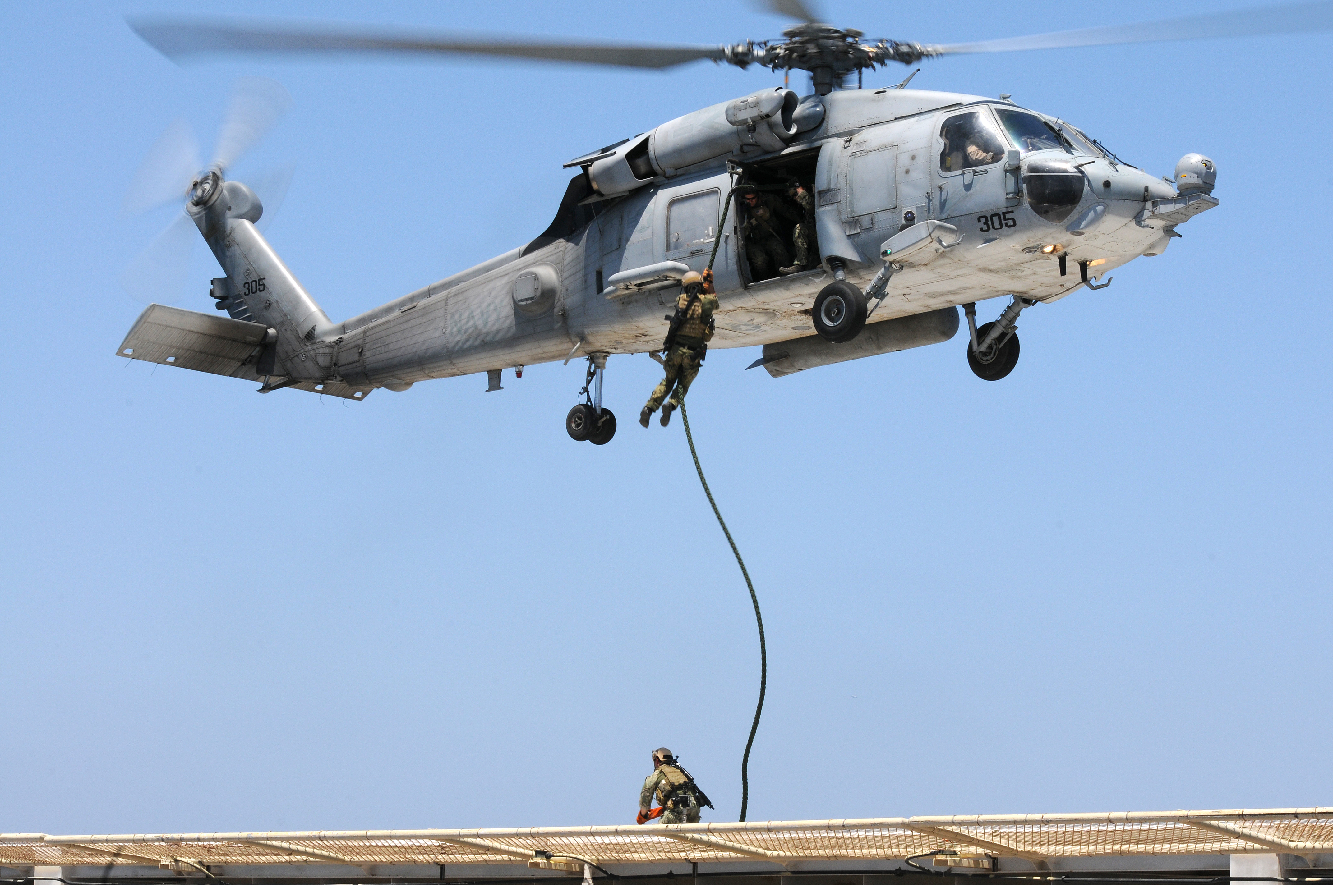 LONG BEACH, Calif. (July 28, 2011) A U.S. Navy SEAL fast ropes from an HH-60H Sea Hawk helicopter assigned to the High Rollers of Helicopter Sea Combat Squadron (HSC) 85 onto a gas and oil platform. SEALs conduct these evolutions to hone their various maritime operations skills. (U.S. Navy photo by Mass Communication Specialist 3rd Class Adam Henderson/Released) 110728-N-WA189-726